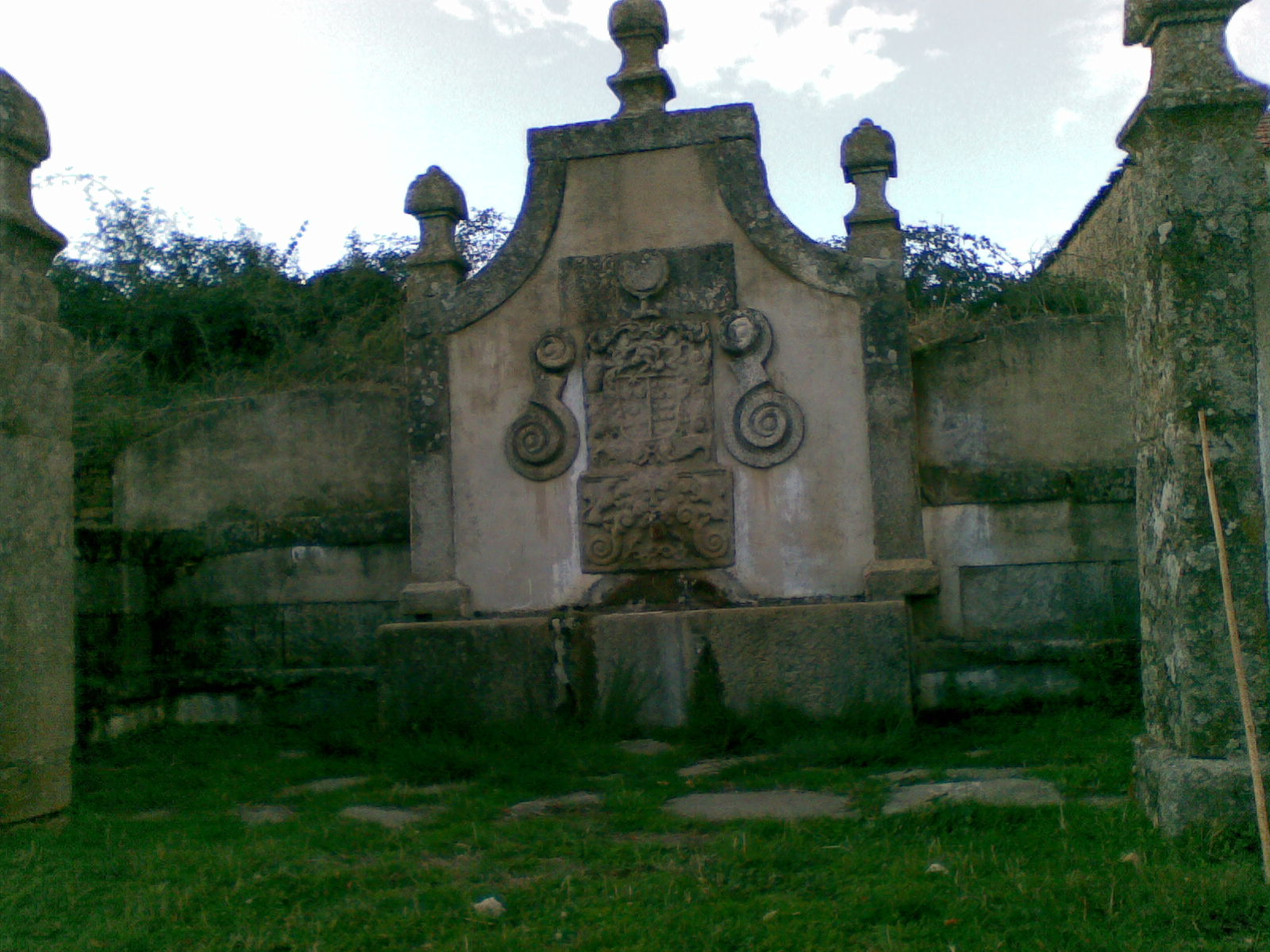 Fountain with a coat of arms. Vila Boa de Arufe farm. Rebordainhos. Braganza, Portugal.